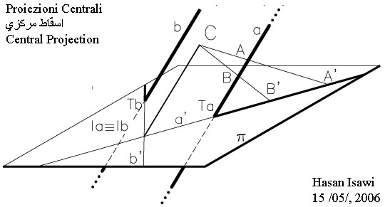 central projection